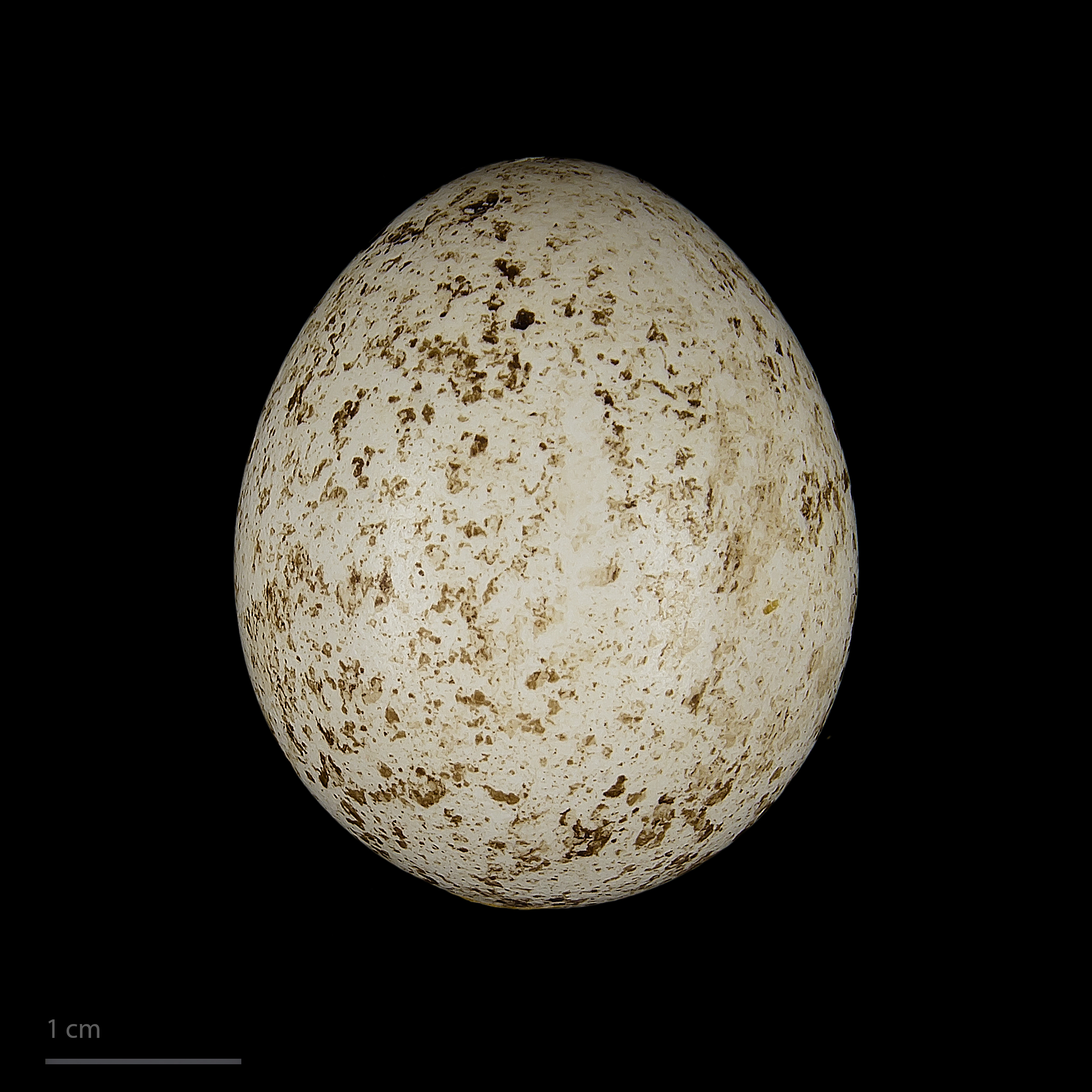 Eggs of american kestrel collection of Jacques Perrin de Brichambaut.